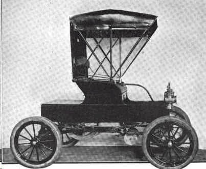 The single cylinder Monarch 7 HP Runabout was a voiturette built by the Monarch Automobile Company in Aurora, Ill., from 1905 until 1908.